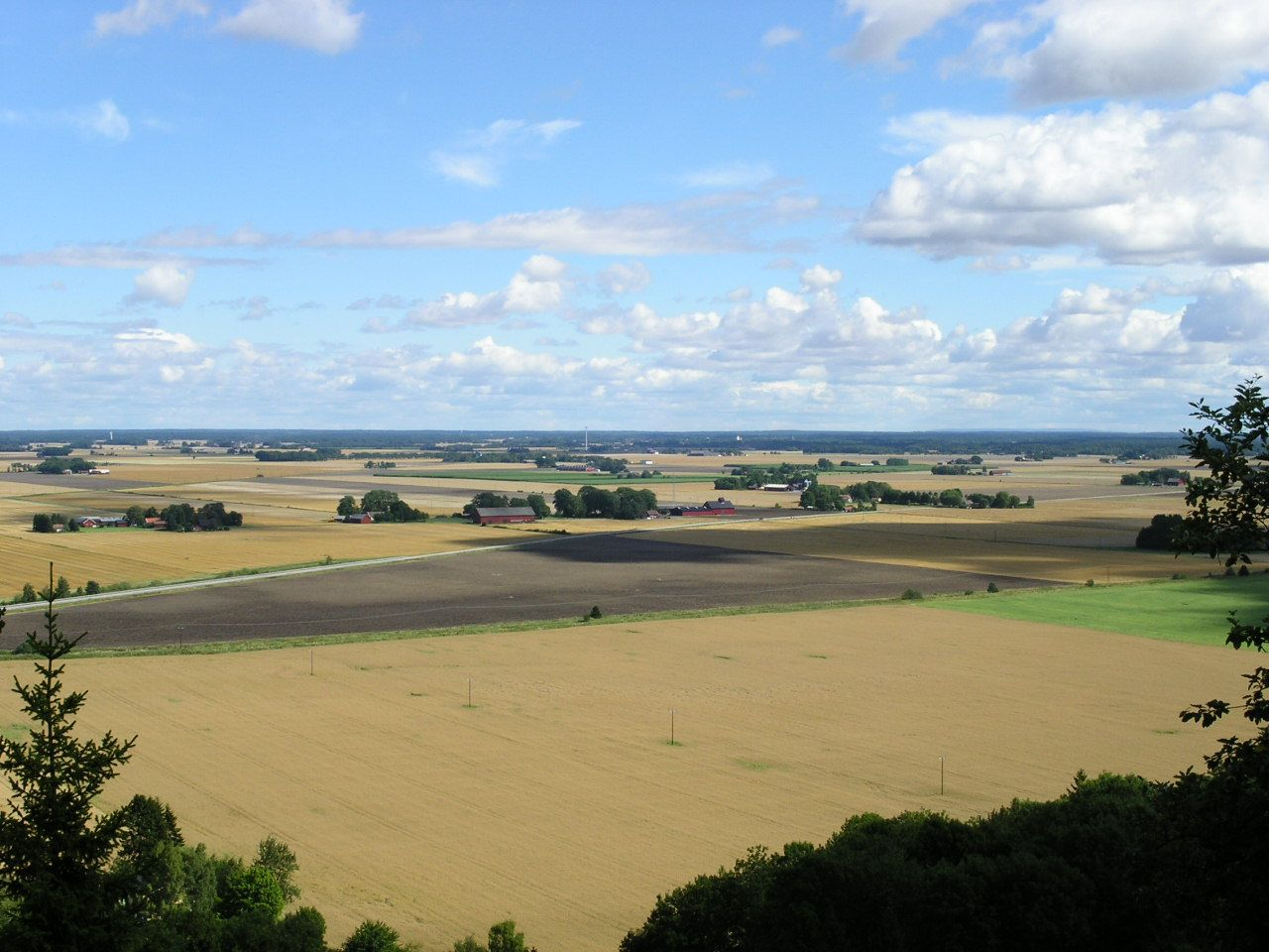 The Västgöta-plains east of the mountain Hunneberg, Sweden.